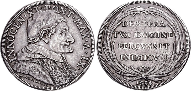 Italy, Papal States. Innocentius XI. 1676-1689. AR Scudo (31.84 g, 12h). Roma mint. Dated 1684. INNOCEN XI PONT MAX A IX (triskeles stops), mantled bust right, wearing zucchetto; HAMERANVS • F • below (Hamerani engraver) DEXTERA/TVA/DOMINE/PERCVSSIT/INIMICVM in four lines within palm wreath; 1684 in exergue. CNI XVI 80; Muntoni 31 (piastra); Berman 2084 (piastra). Note: it was minted :"aiding the Relief of Vienna"